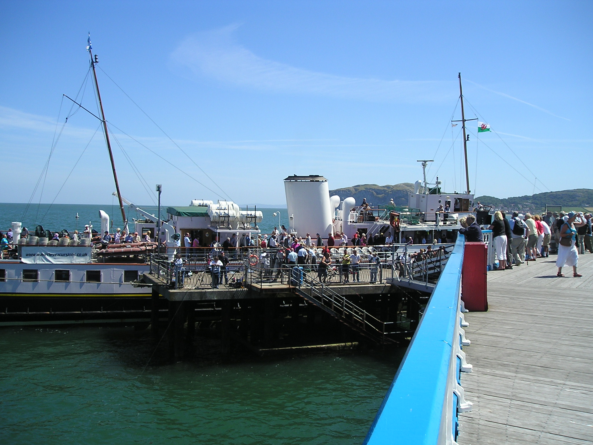 taken by me Noel Walley